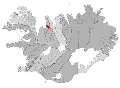 Based on Municipalities of Iceland.png.